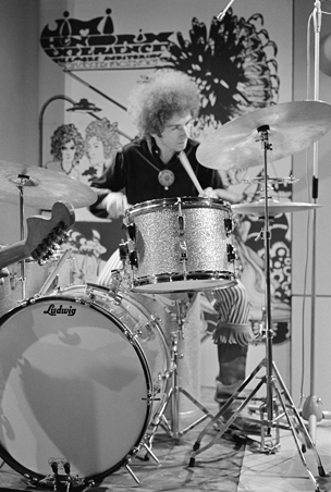 Mitch Mitchell during a Jimi Hendrix Experience's performance for Dutch television show Hoepla in 1967.